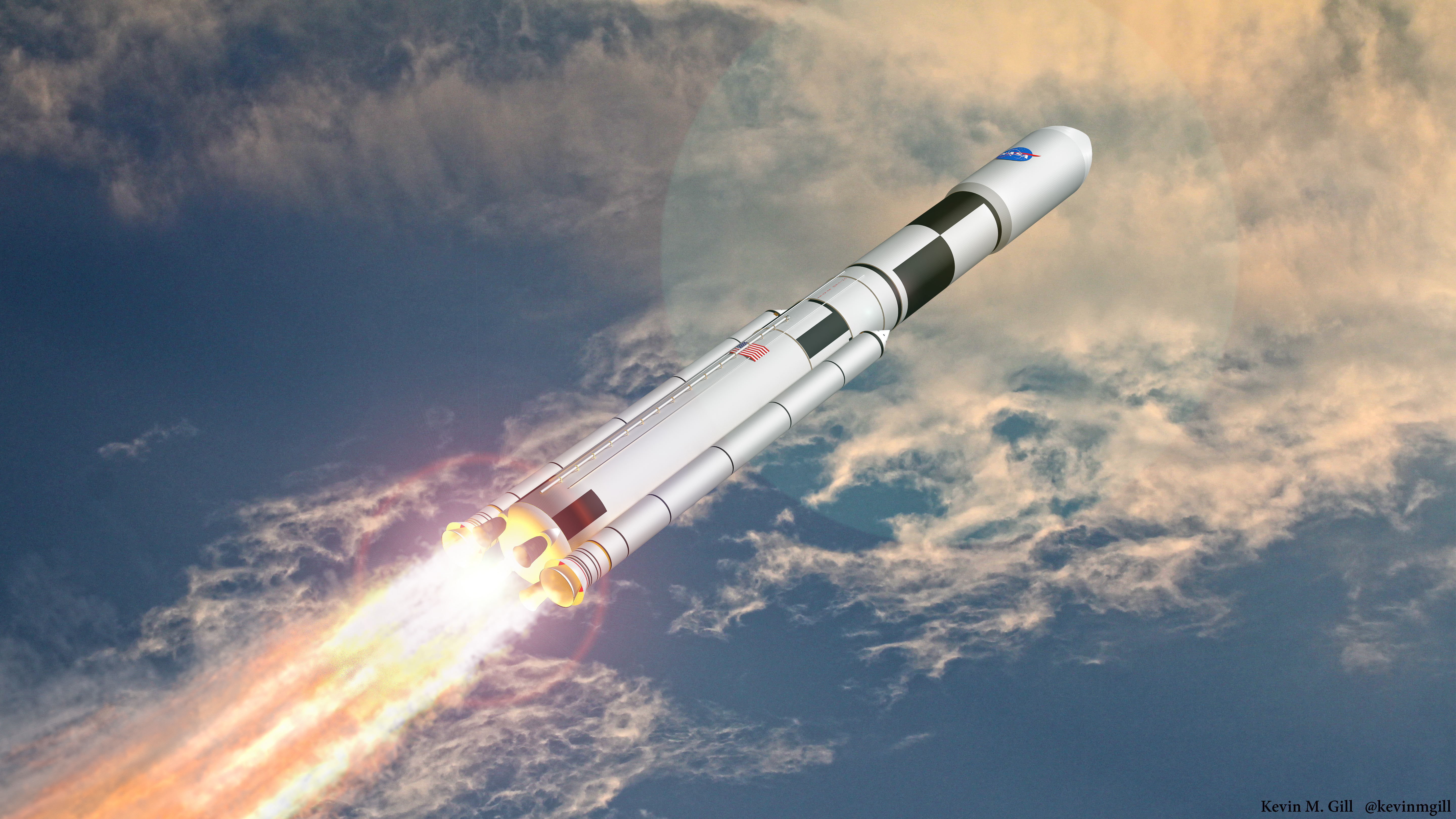 Rendered using Blender 2.72, post in Photoshop